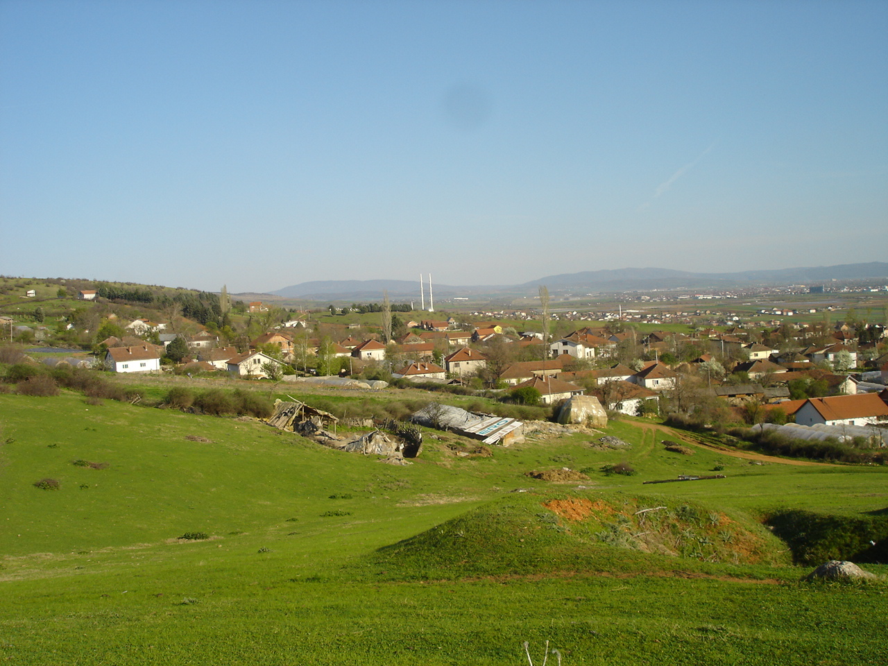 village of Brnjarci, near Skopje, Macedonia